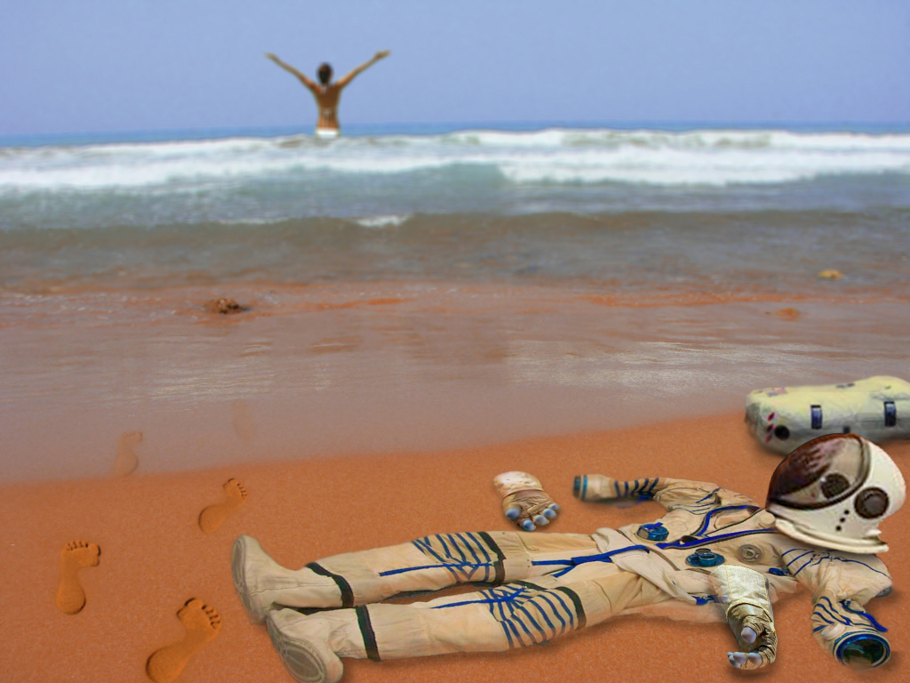 Terraforming